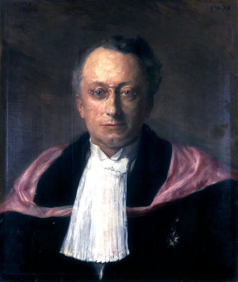 Ambrosius Arnold Willem Hubrecht, Dutch zoologist and embryologist.